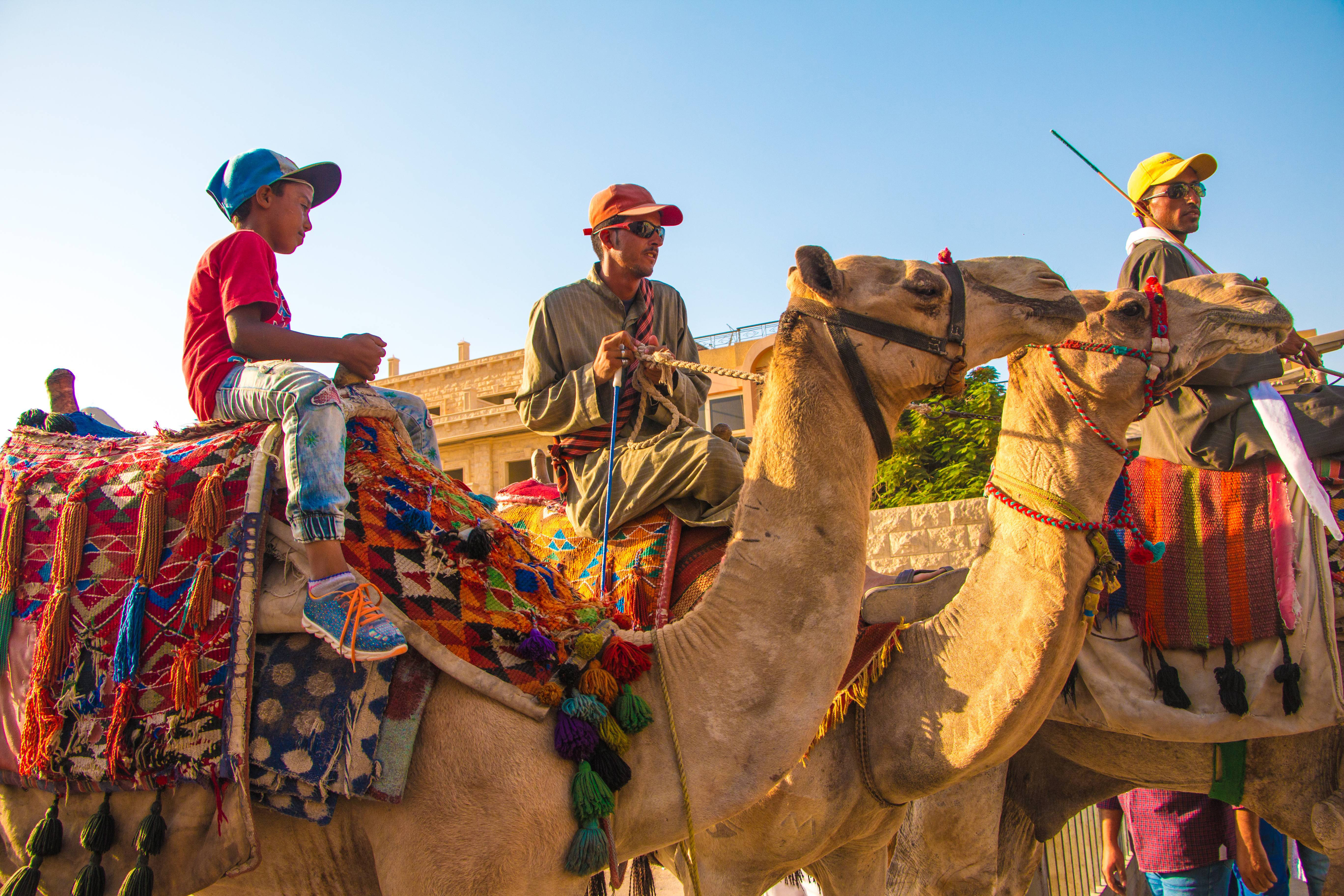 camels in Giza This is an image with the theme "Africa on the Move or Transport" from: Egypt